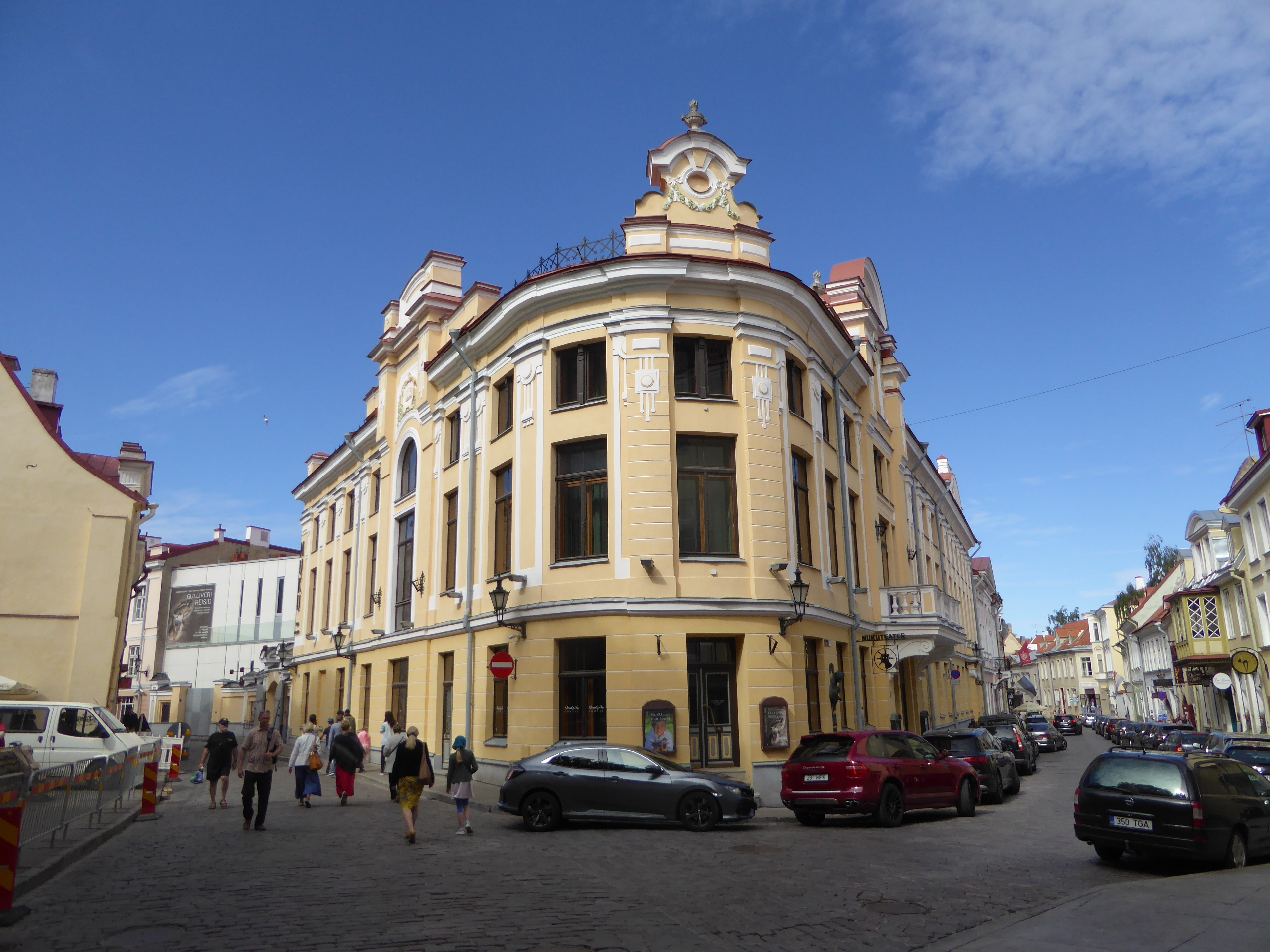 NUKU teater ja muuseum (Estonian State Puppet and Youth Theatre) at the corner of Nunne tänav and Lai tänav in the old town of Tallinn.